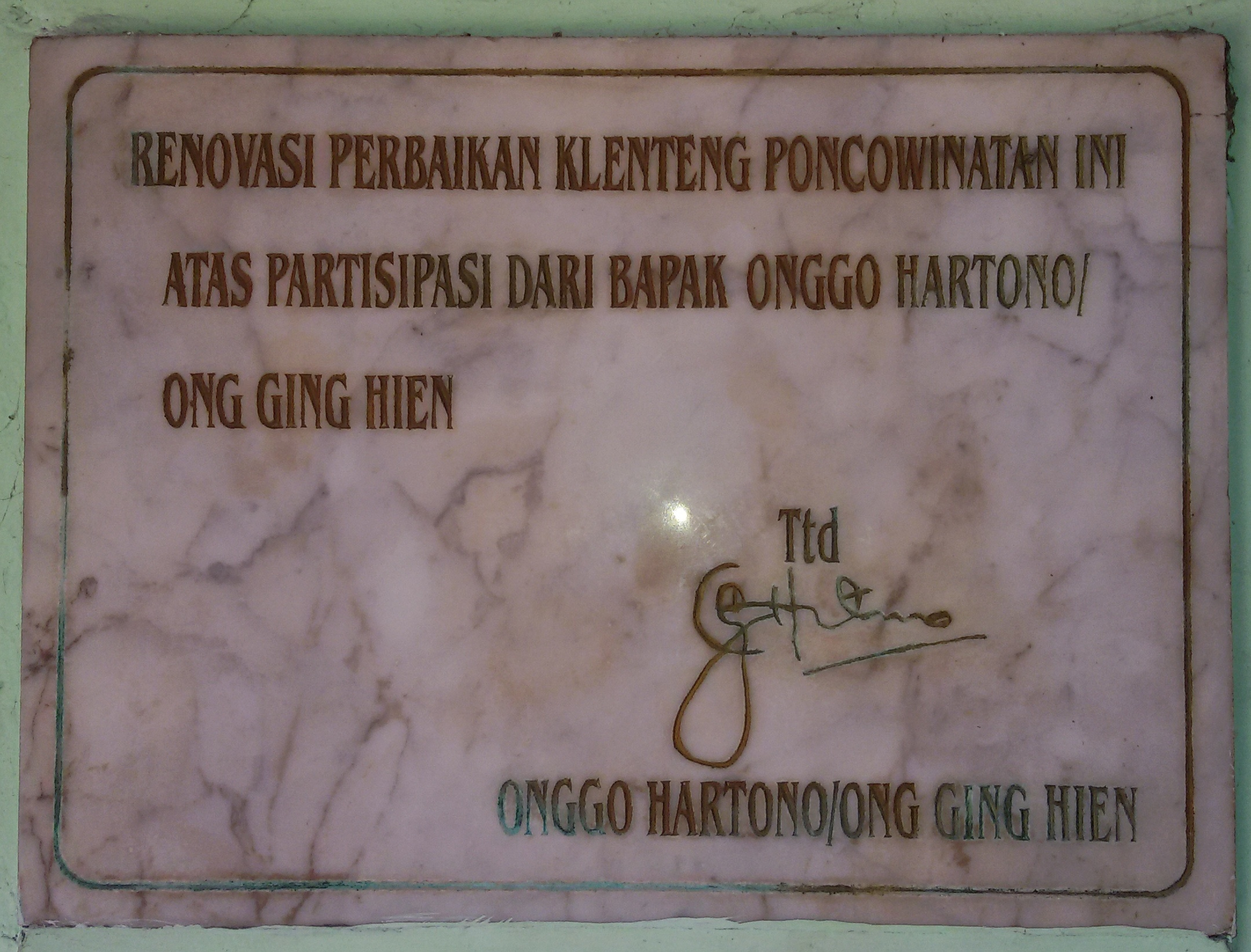 The renovation inscription of Tjen Ling Kiong temple, Indonesia